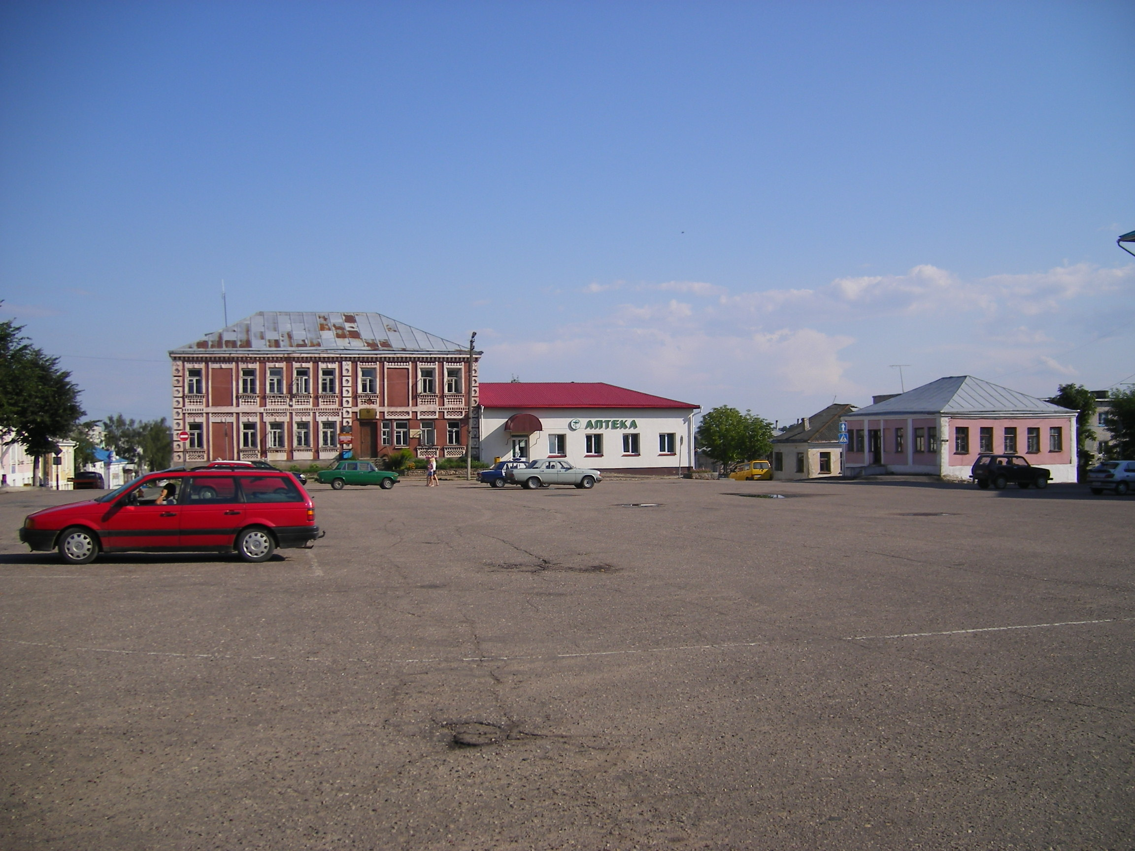 Karelichy, Main Square (pl. 17. Sentyabrya)